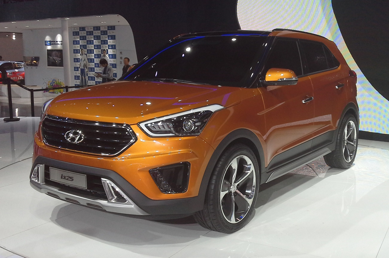 Hyundai ix25 Concept photographed at the Auto China 2014, Beijing, China.